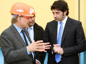 U.S. Ambassador to Georgia Richard B. Norland and Georgia's Minister of Energy and Natural Resources Kakha Kaladze in Tskaltubo on November 14, 2012.